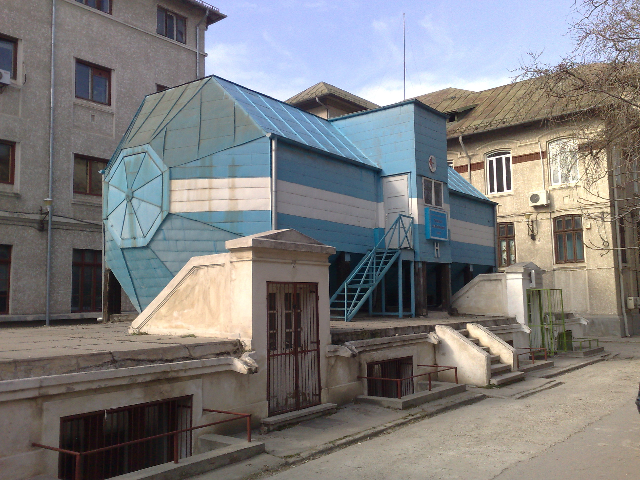 The wind tunnel in the FIA campus